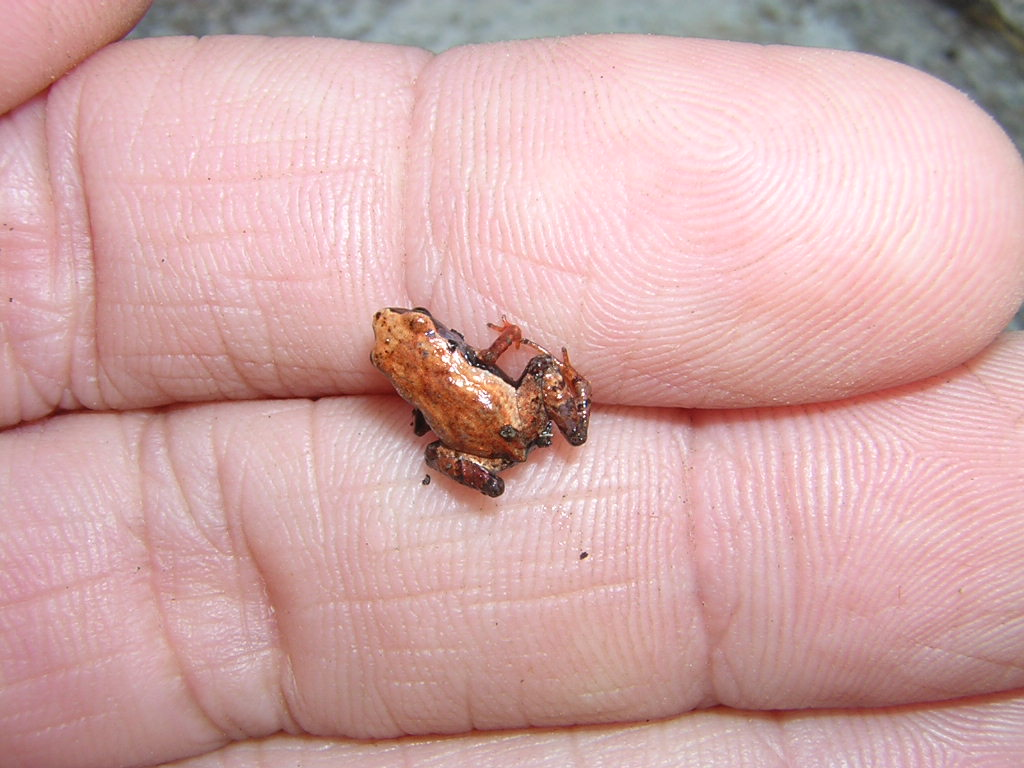 Eleutherodactylus cubanus